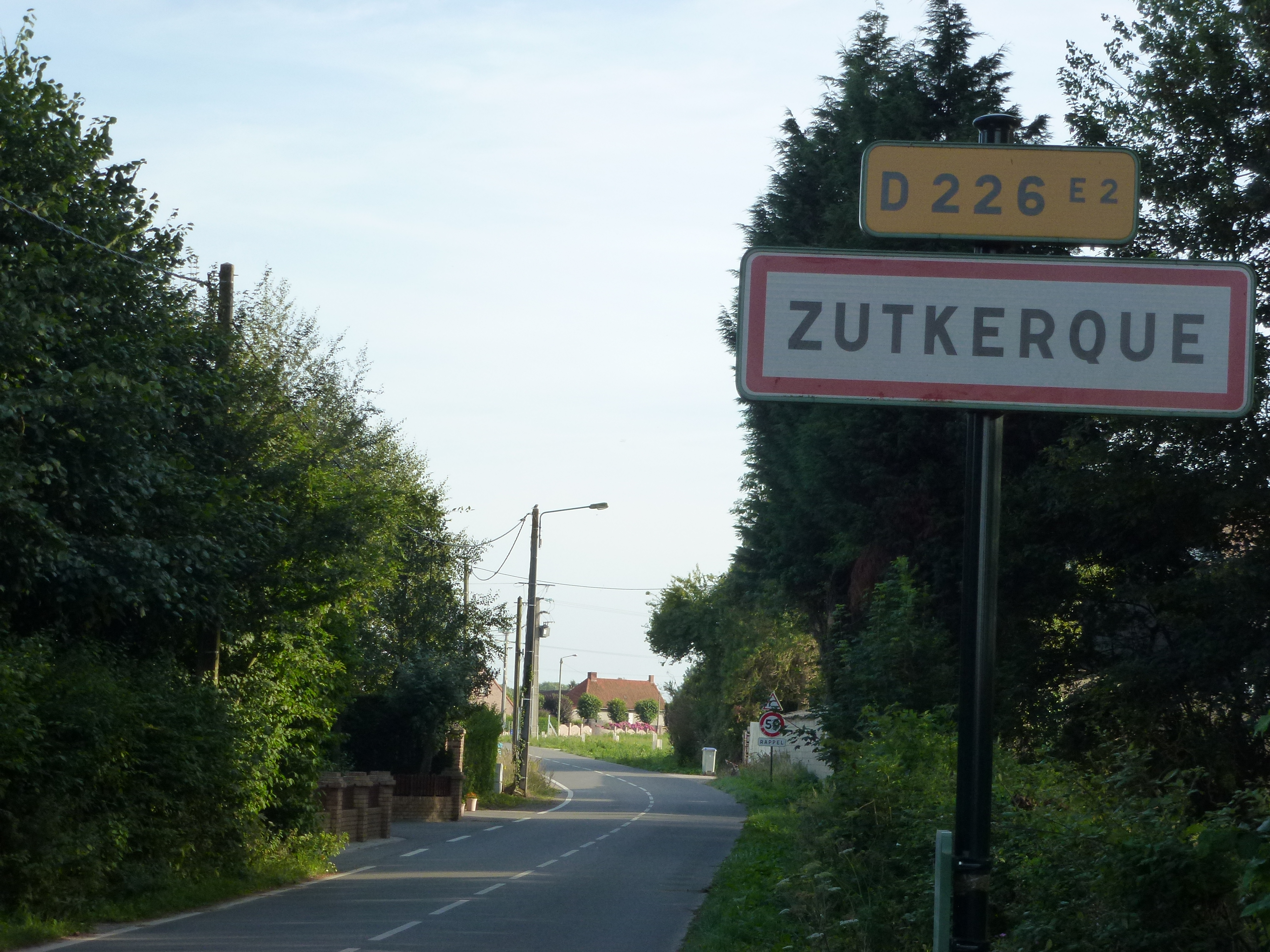 Zutkerque (Pas-de-Calais) city limit sign